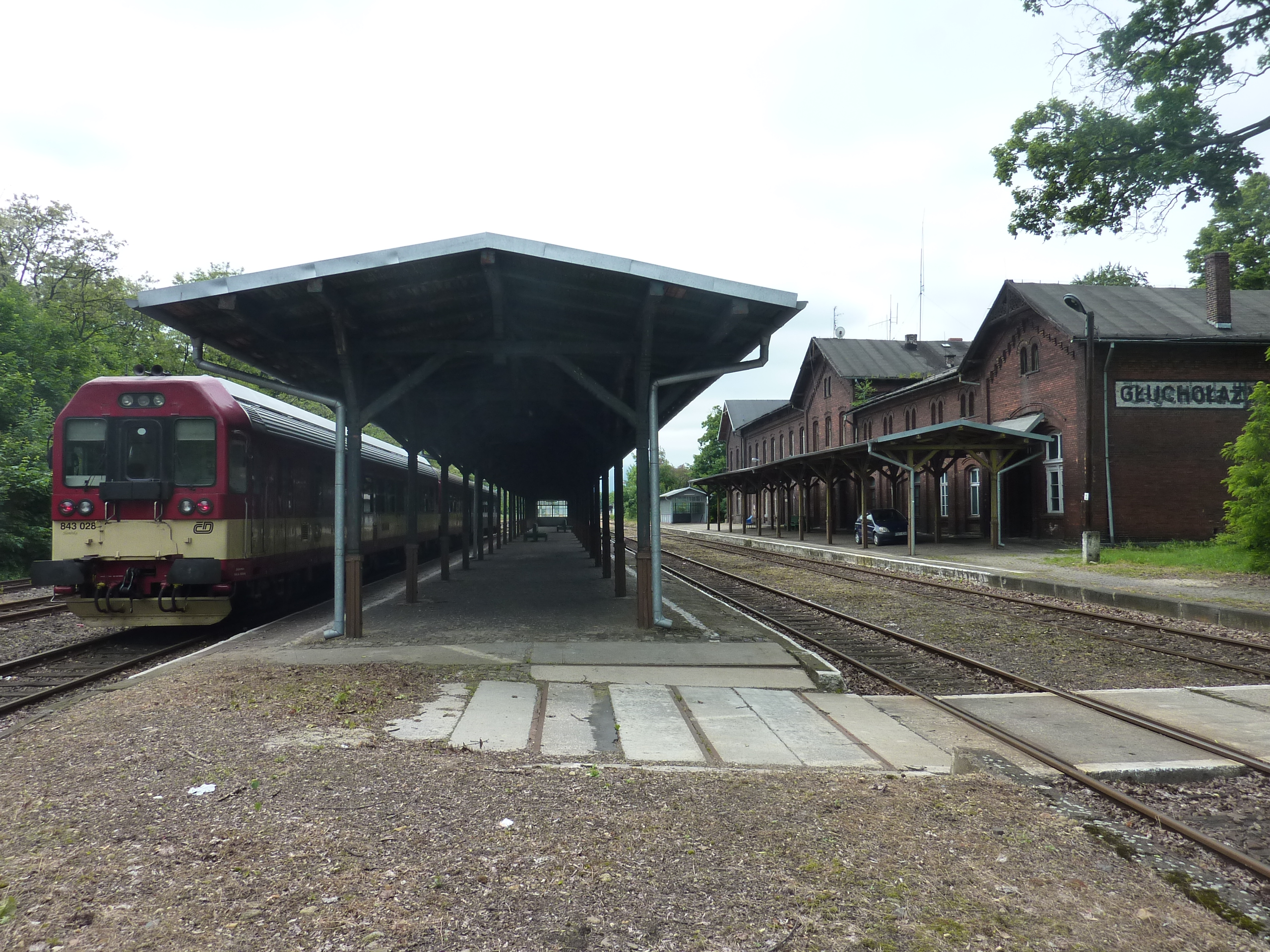 Czech Railways train in the train station of Głuchołazy (Poland)